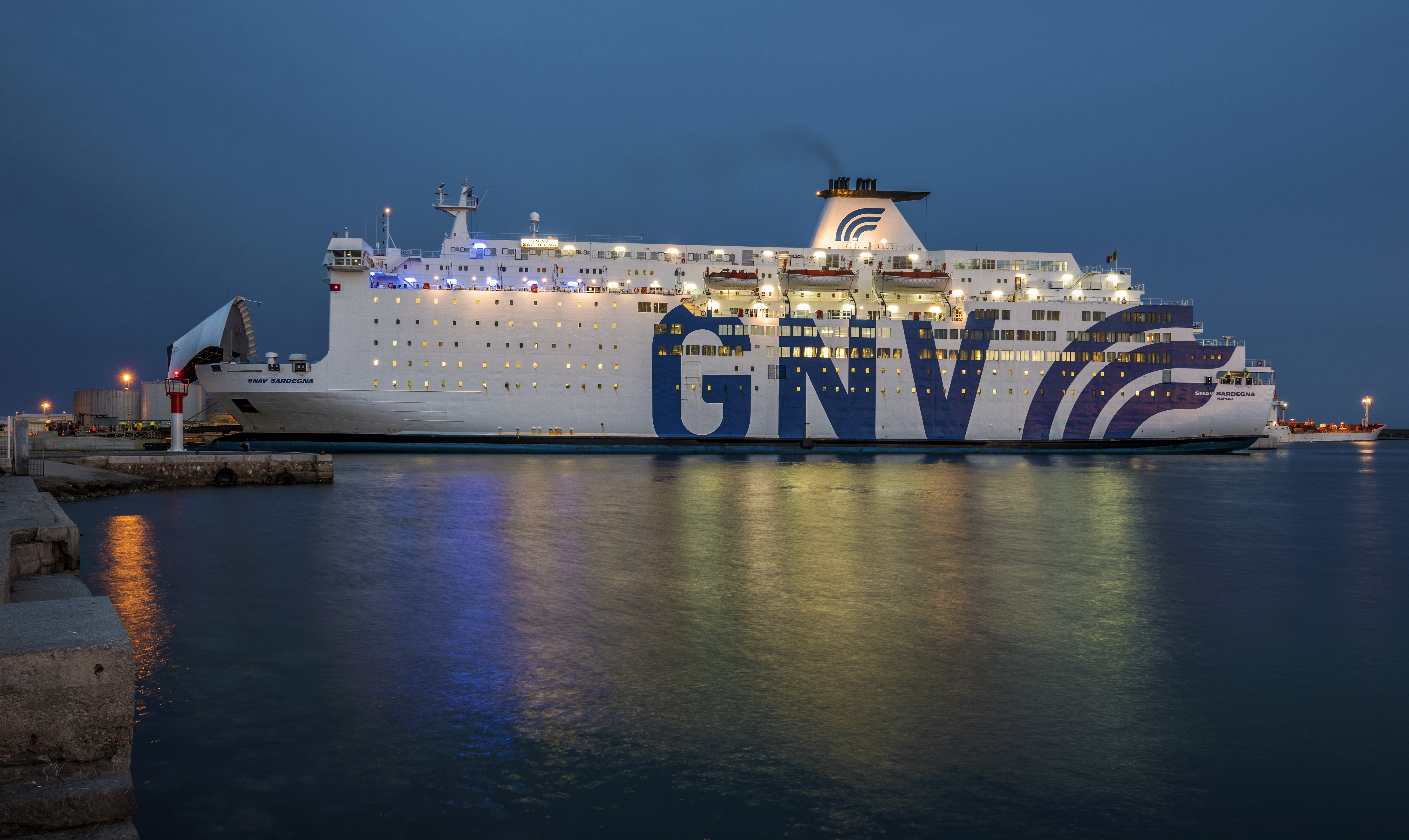 SNAV Sardegna (ship, 1989) in the harbour of Sète, Hérault, France